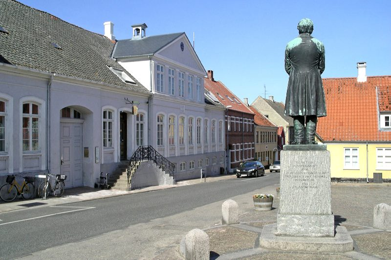 Rudkøbing Pharmacy (the grey building with the external stairway), as seen from Gåsetorvet. The foundation of the statue reads: "Erected in 1920, the centenary of H.C. Ørsted's discovery of electricity's effect on a magnetic needle".